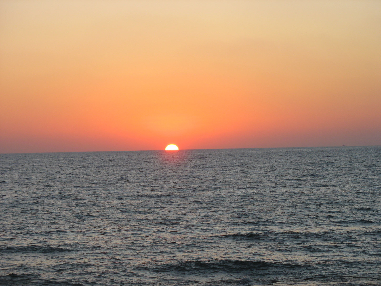 Sunset at Betzet